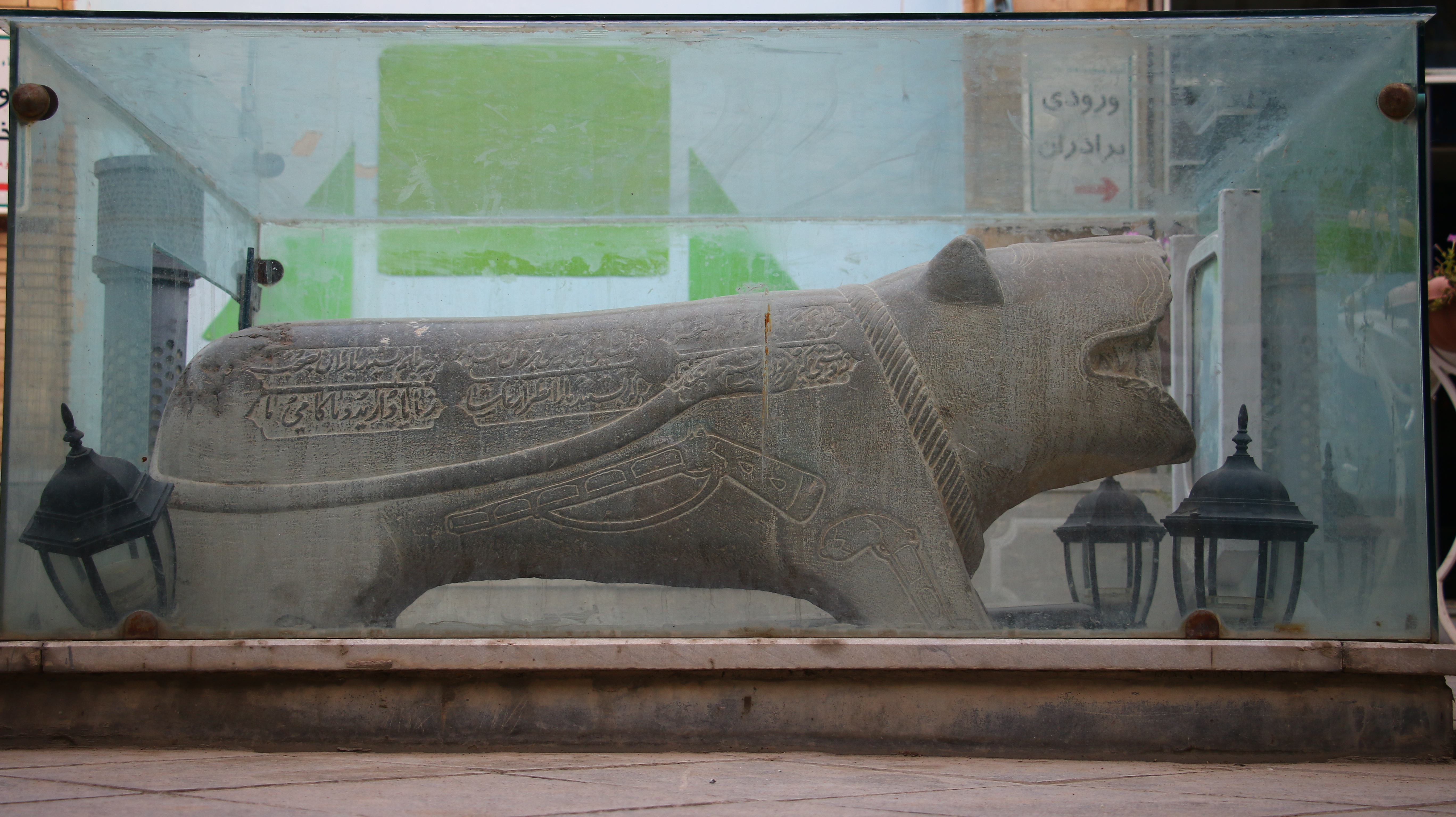 stone lion in emamzadeh Ahmad esfahan